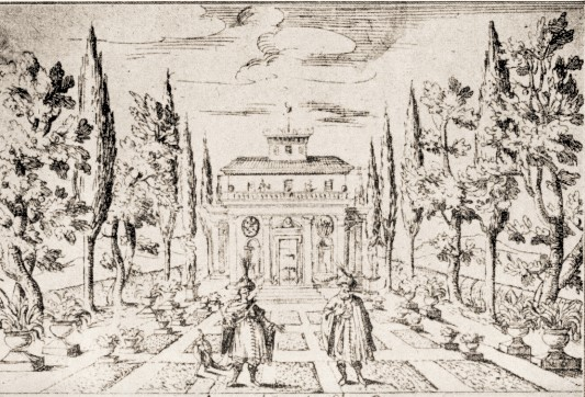 Etching of the stage set design for Antonio Cesti's opera La Dori, probably for a production in Venice. The scene depicts the garden of the seraglio